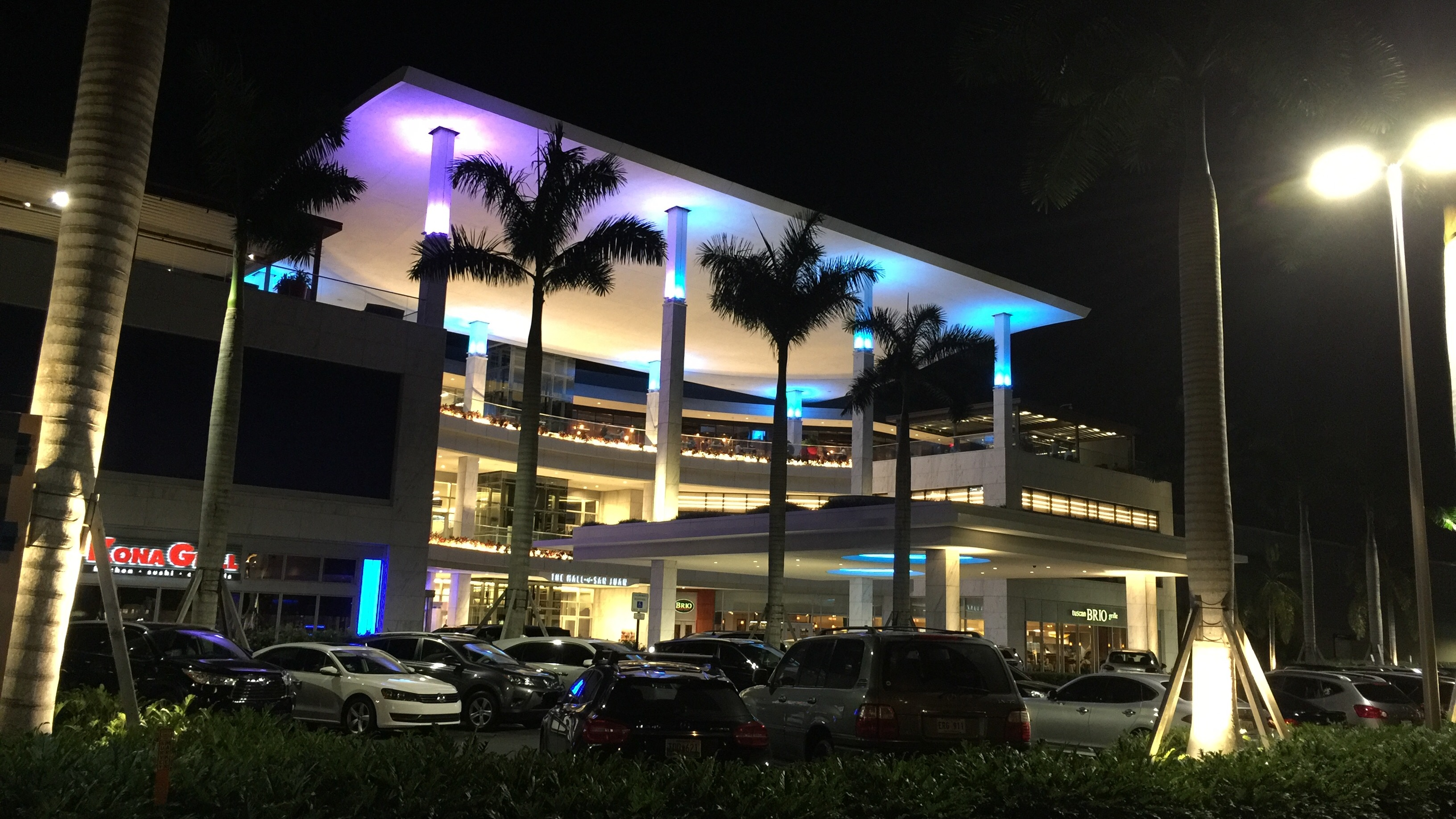 The Mall of San Juan main entrance